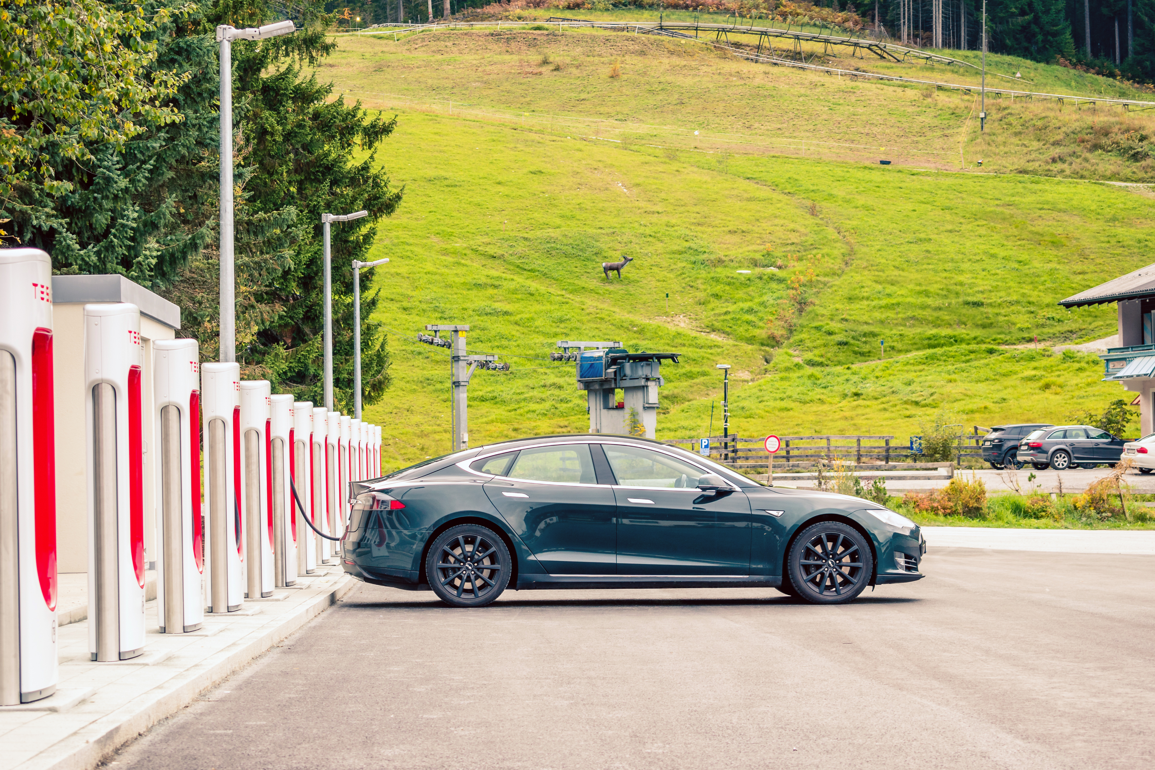 A Tesla Model S charging at the Supercharger station in Flachau, Salzburger, Austria.